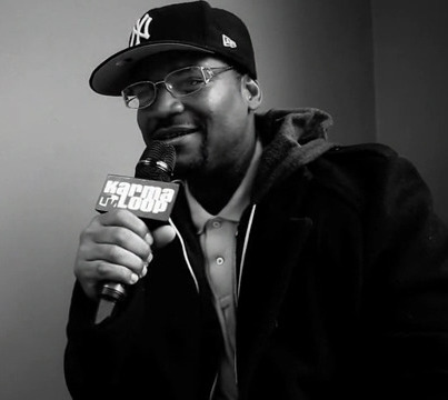 Screenshot of interview with Tragedy Khadafi on Karmaloop TV